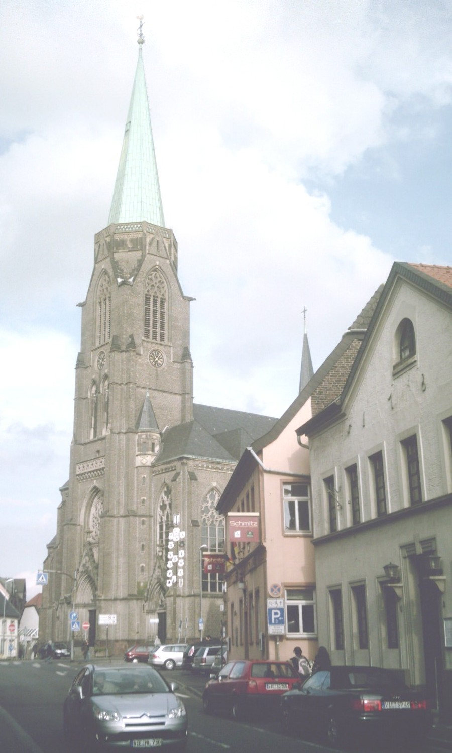 Roman-Catholic church in Anrath, Germany